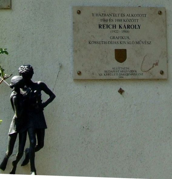 Károly Reich commemorative plaque in Budapest District XII, Tusnádi Street No 37.